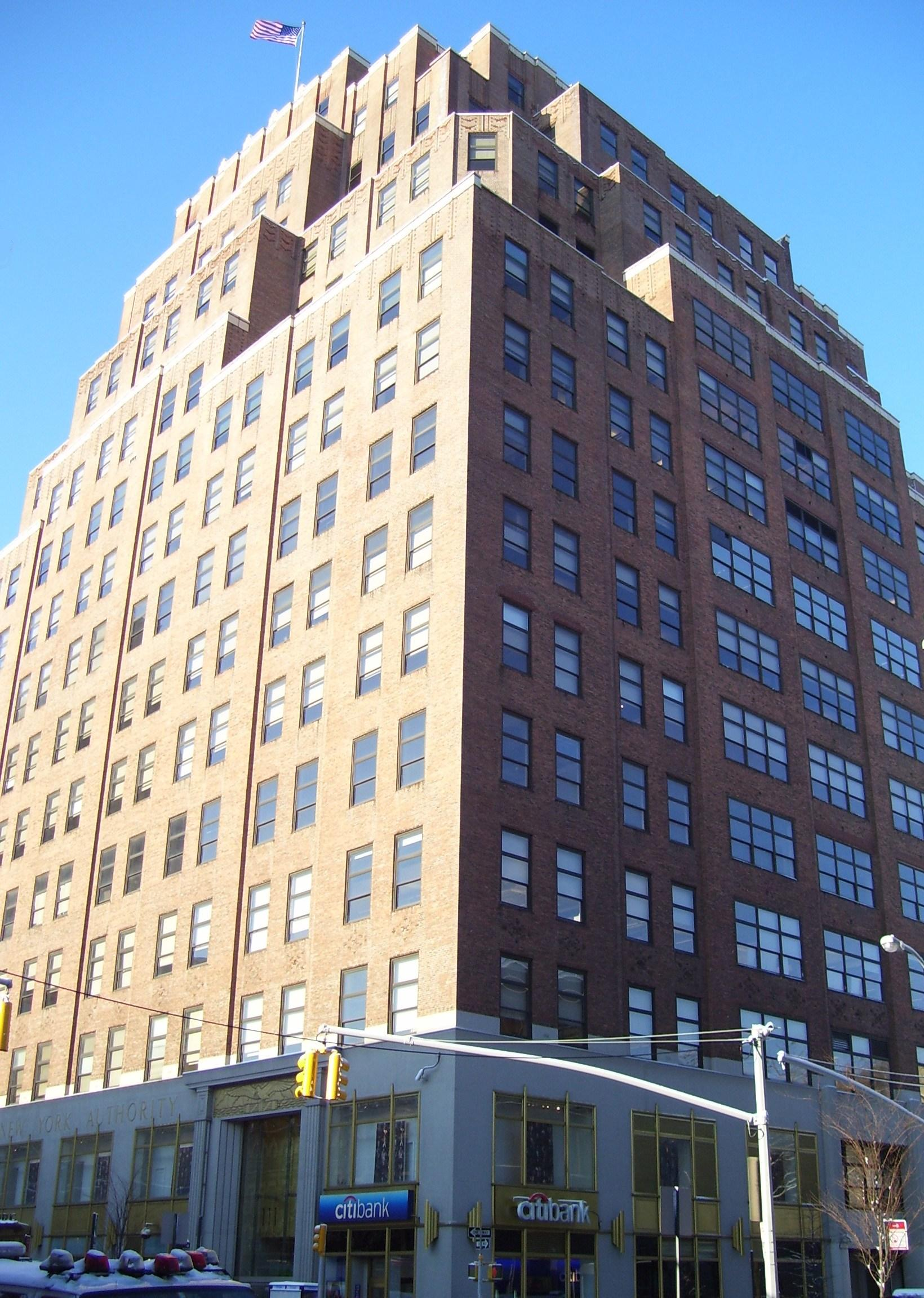 111 Eighth Avenue, formerly Inland Terminal #1, as seen from Eighth Avenue and 16th Street.